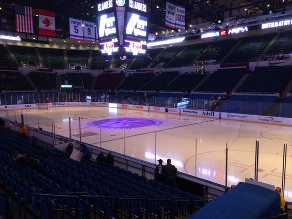 Nassau Coliseum Before an Islanders Game